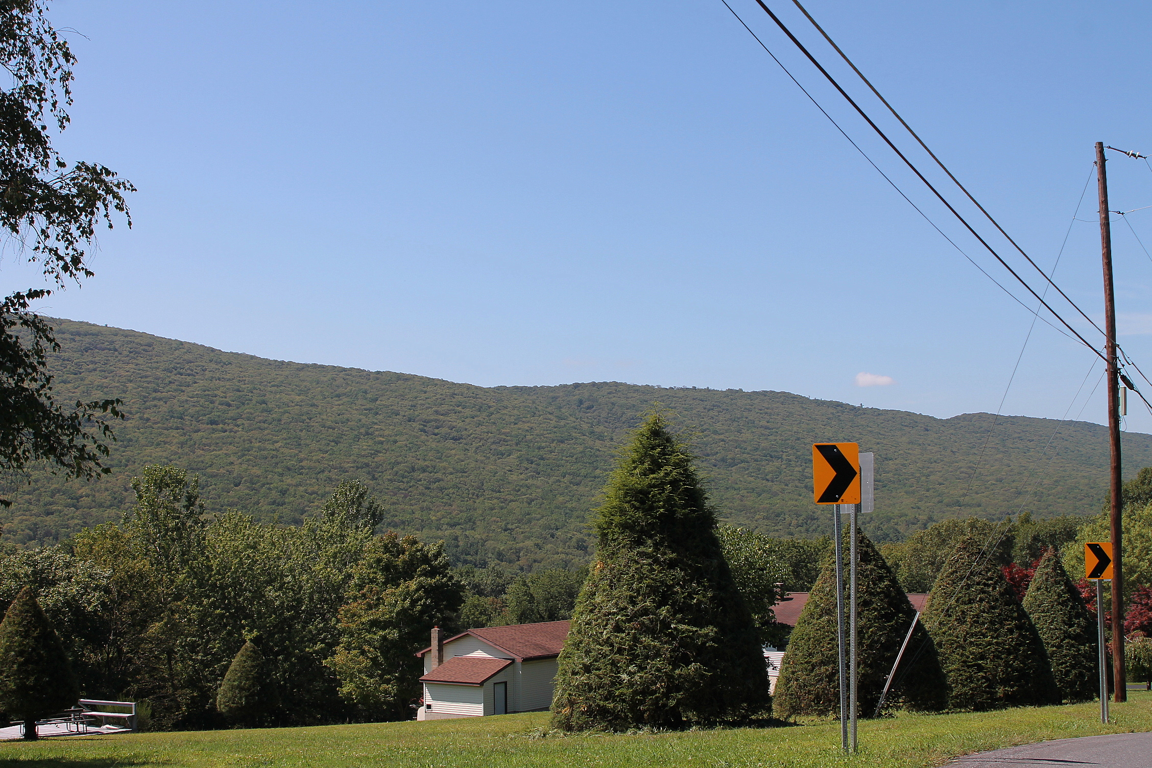 View of a forested ridge in East Cameron Township, Northumberland County, Pennsylvania